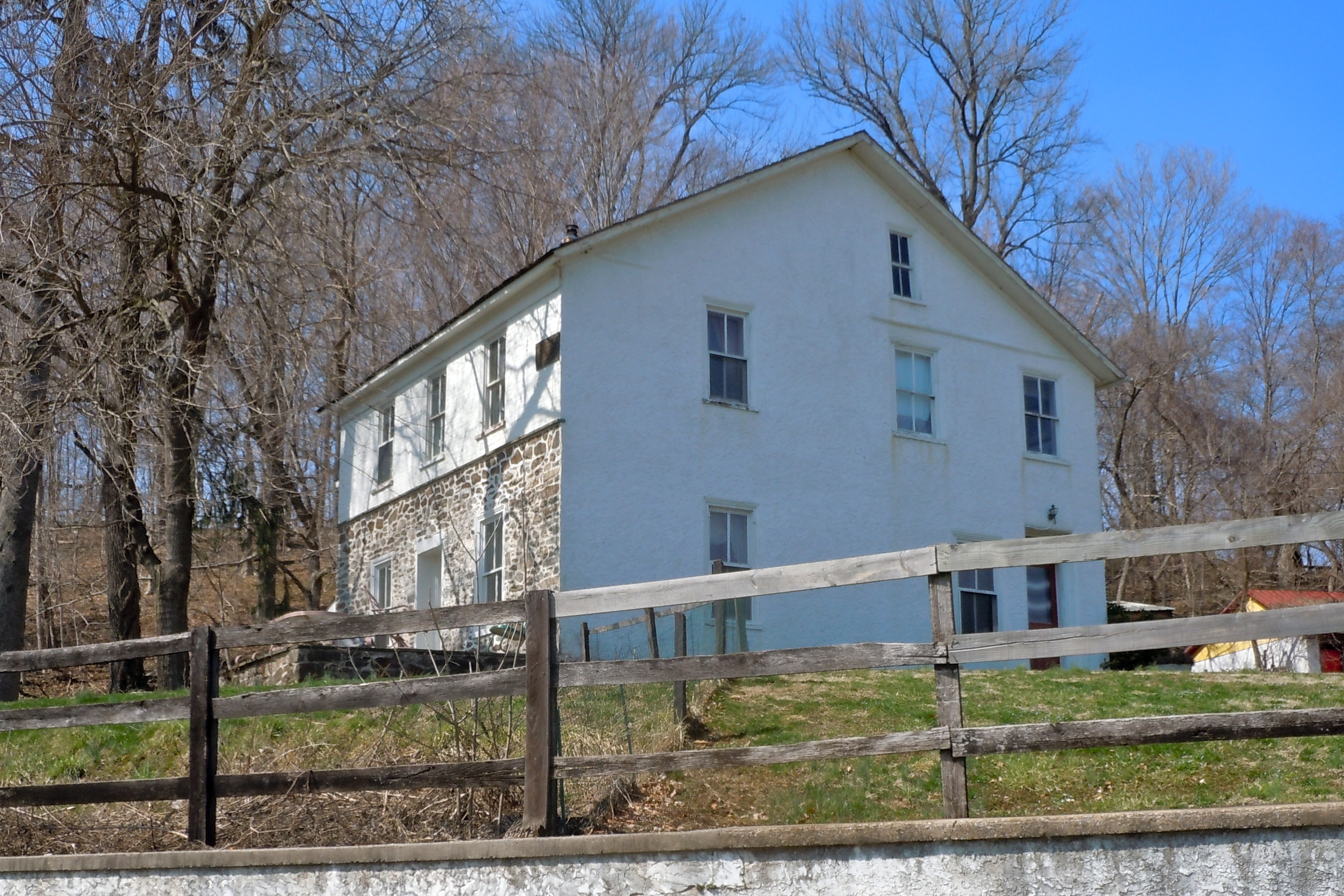 House at Derbydown Homestead on NRHP since February 4, 1973. At the junction of CR 15077 and 15080, in West Bradford Township, Chester County, Pennsylvania. Birthplace and longtime home of Humphrey Marshall, botanist. Part of a working farm, the barns are very impressive - see Derbydown Barn.JPG